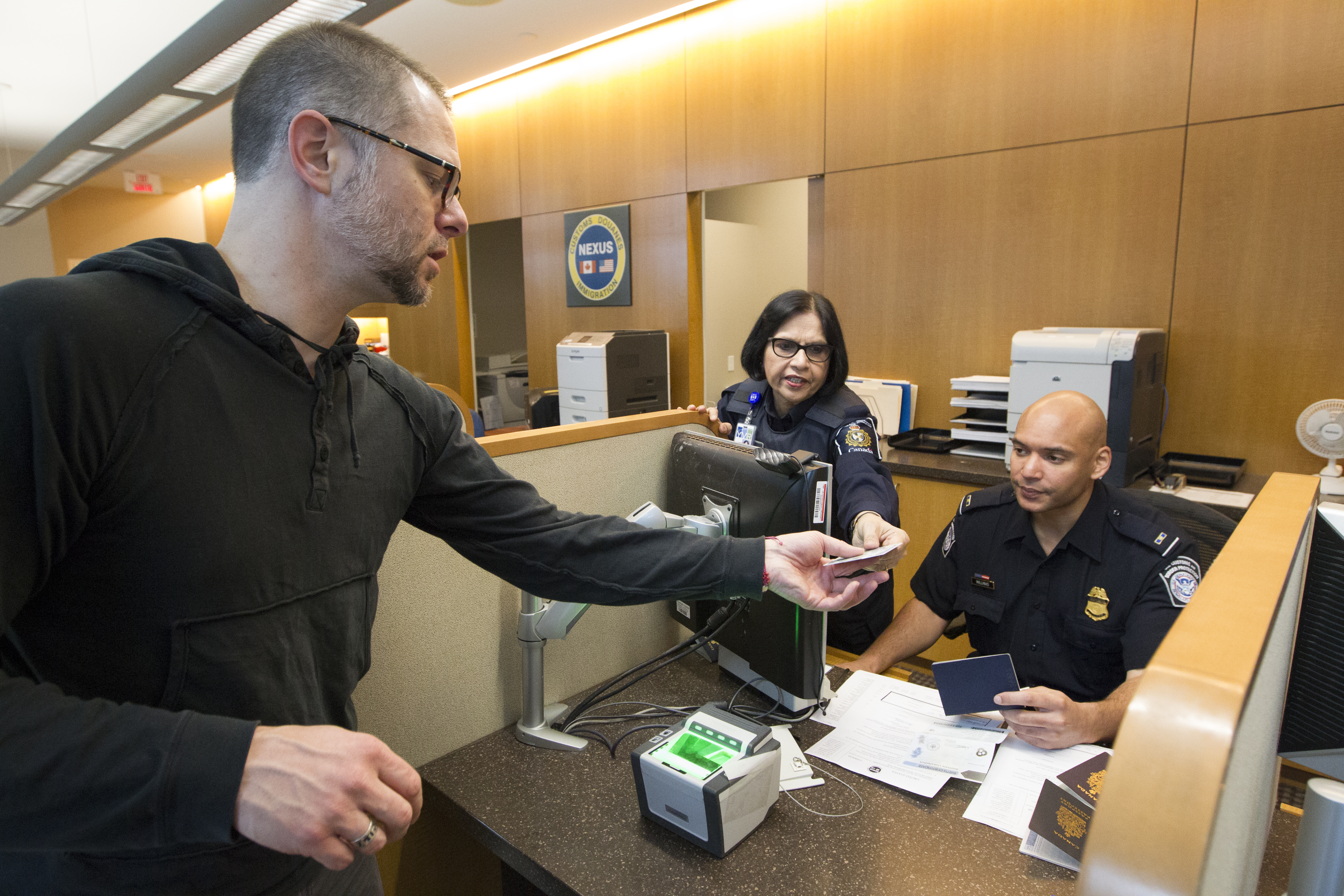 Vancouver, Canada - United States, Customs and Border Protection CBP) and Vancouver, Canada Border Services Agency (CBSA) work together for border crossing efficiency. United States and Canada Customs work together in the Vancouver International Airport NEXUS office processing a passenger. The NEXUS program allows low risk pre-screened travelers expedited processing when entering the United States and Canada. CBP Photographer: Donna Burton